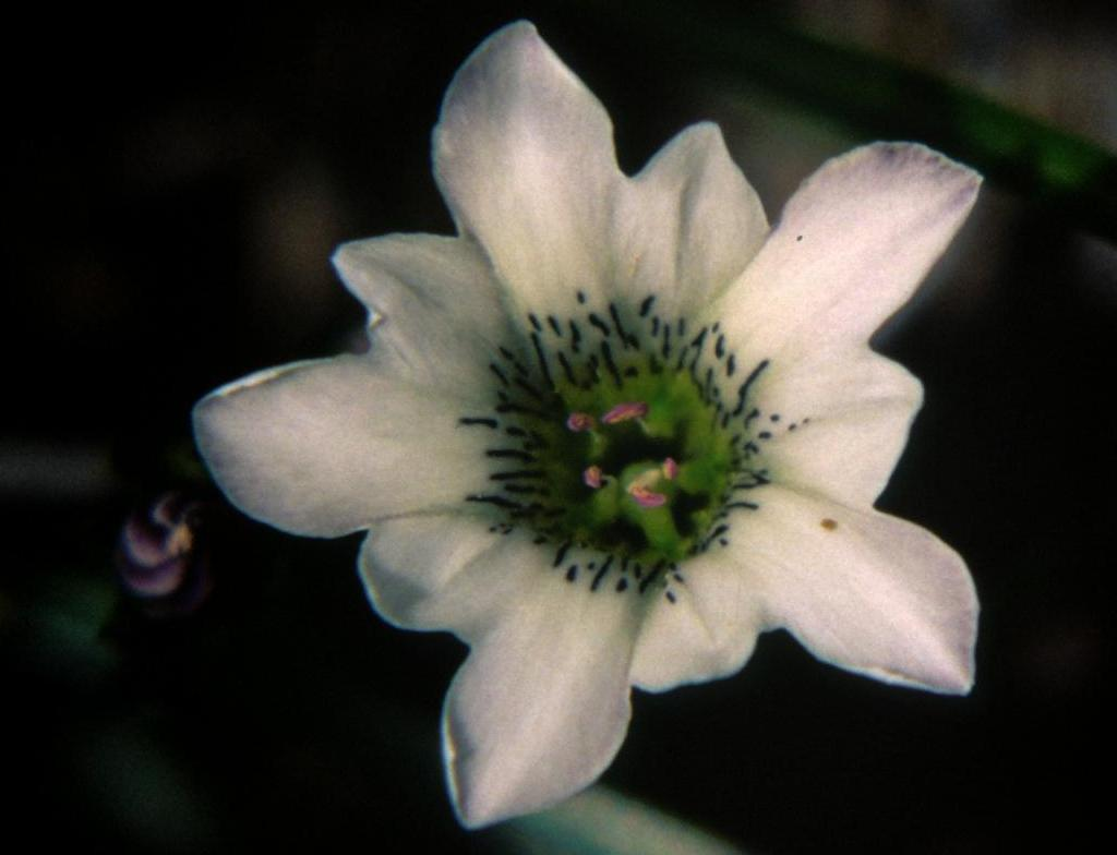 Gentiana thunbergii var. minor f. ochroleuca in Mount Yakushi, Hida Mountains, Japan.